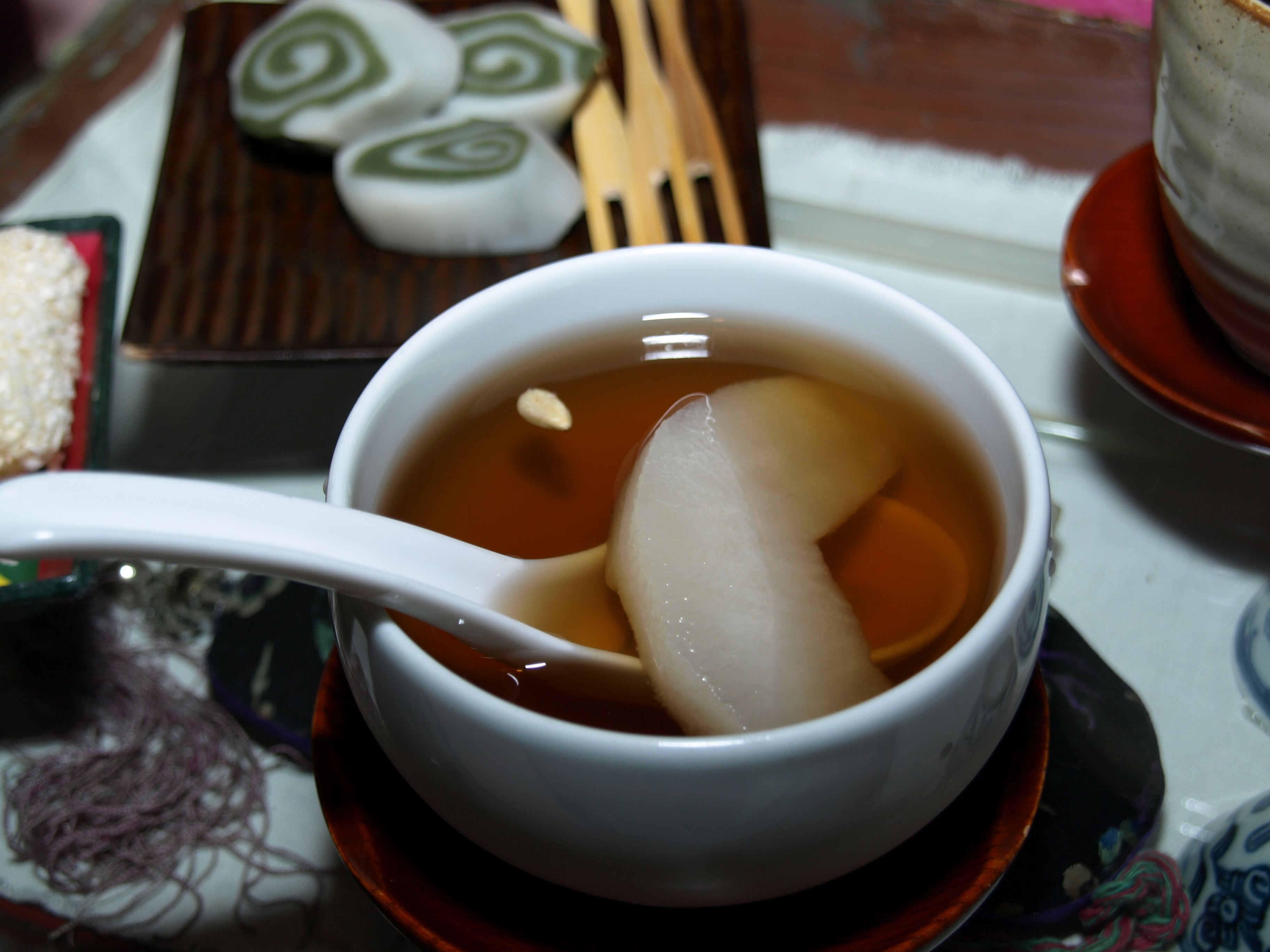 Baesuk (배숙), a variety of hwachae, Korean traditional fruit punch is made by boiling slices of Korean pear along with ginger, black peppercorns, honey or sugar. It has been drunken in summertime and consumed as a special drink for Chuseok (Korean thanksgiving day).